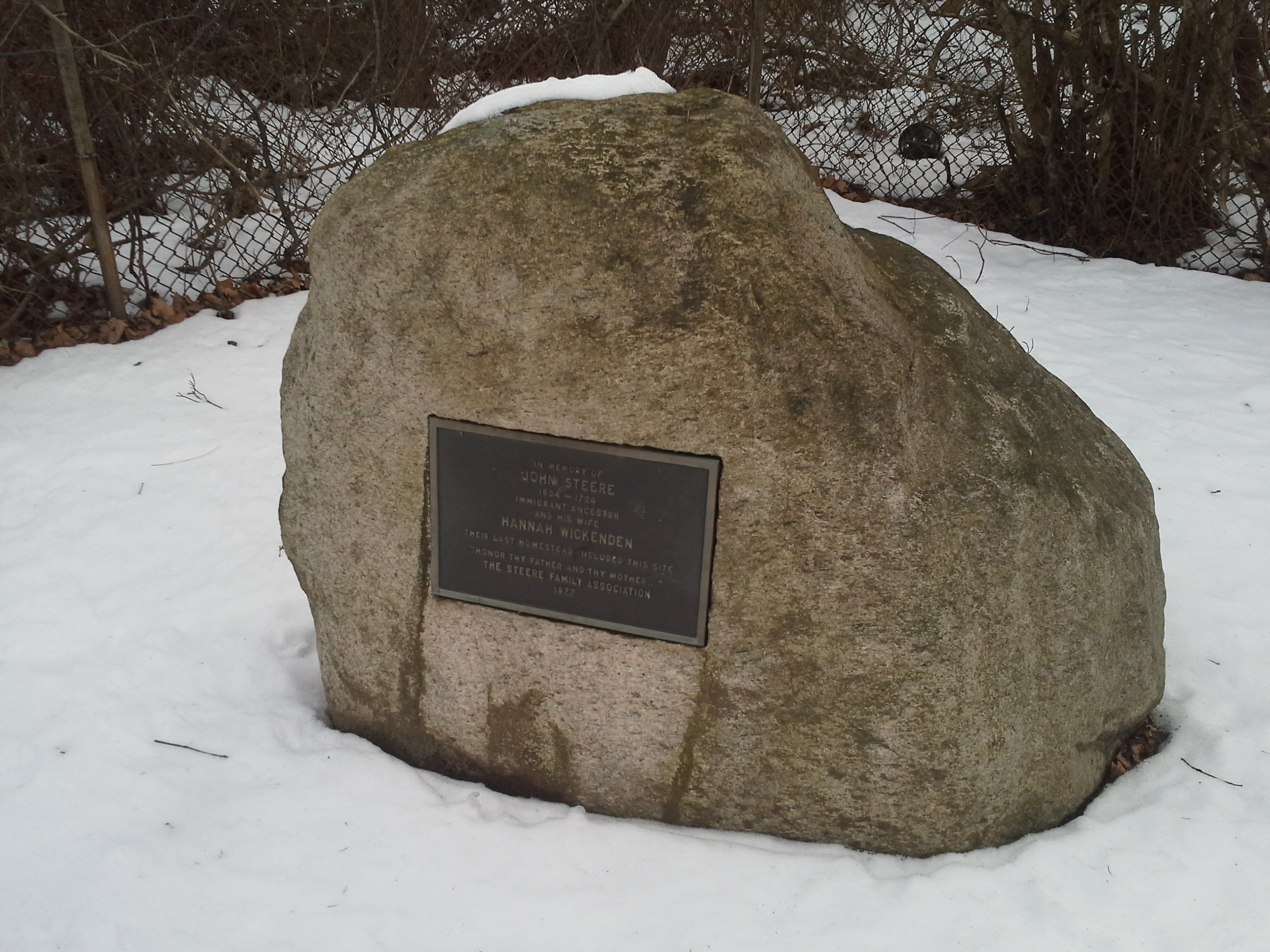 A memorial placed in 1977 near the junction of Mann School House and Swan Roads in Smithfield, RI, USA marking the site of the last homestead of John and Hannah (Wickenden) Streere.